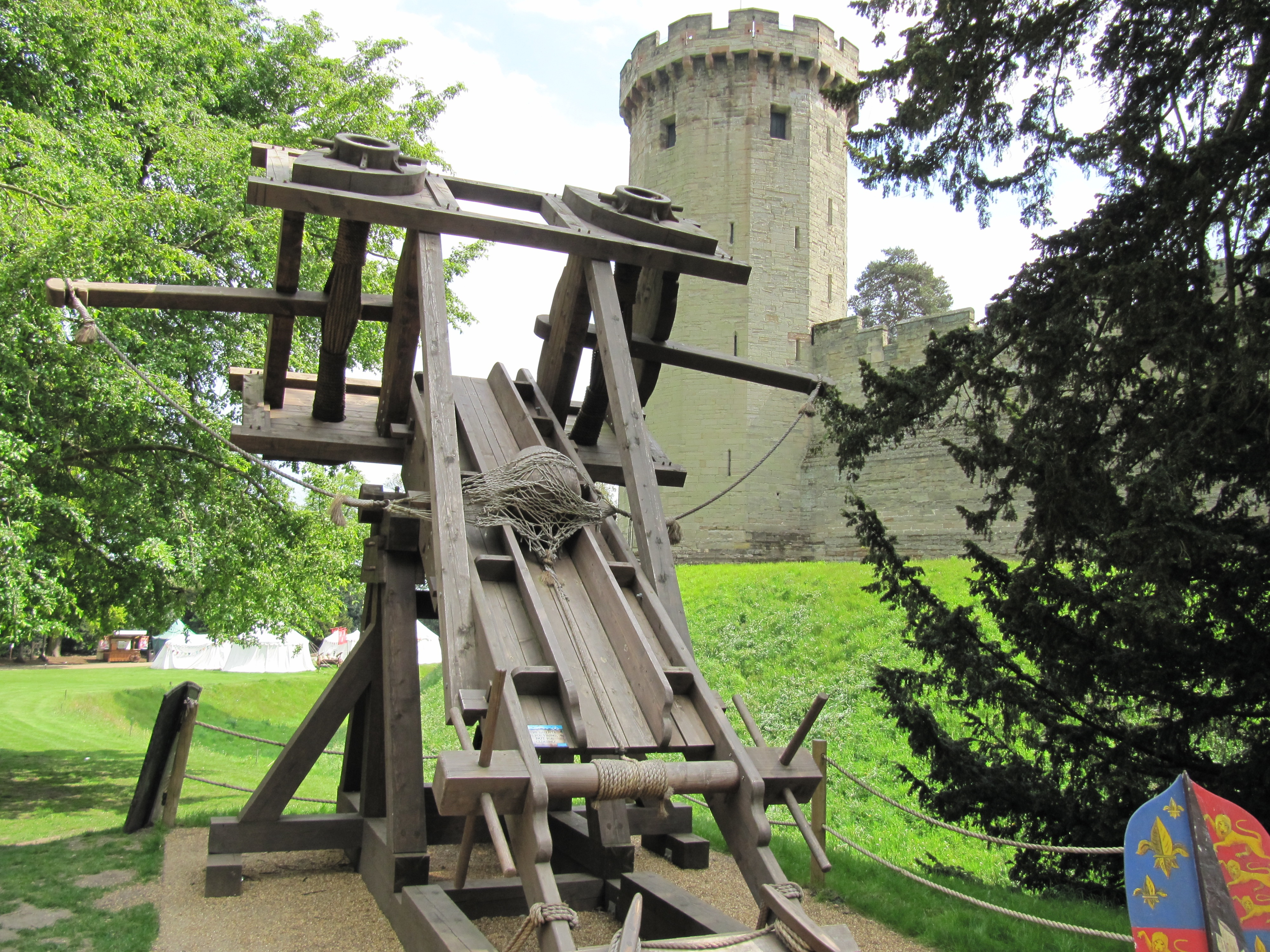 Reconstructed ballista at Warwick Castle